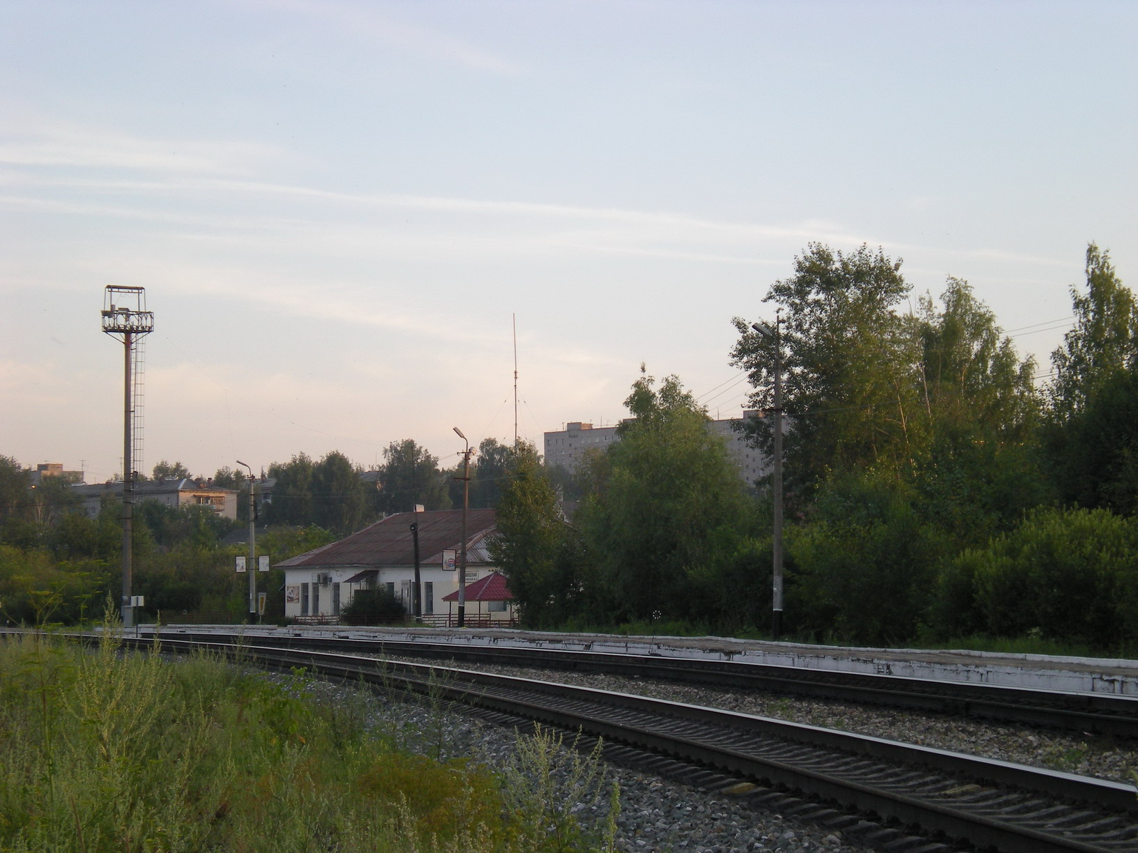 Zavodskaya railway station in Izhevsk, UdmurtiaУдмурт: Иж карысь Заводской чугун сюрес станция, Удмуртия